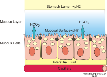 Diagram of alkaline Mucous layer in stomach